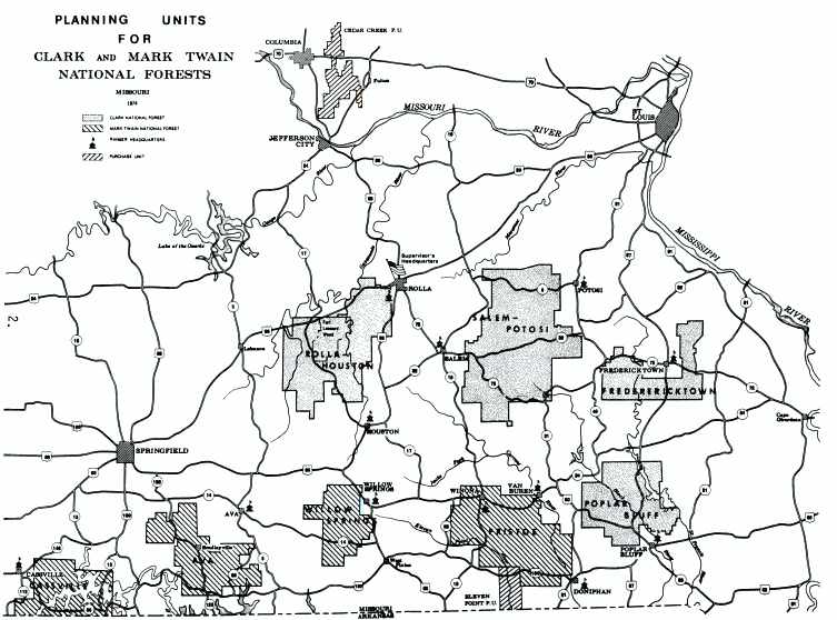 Map of National Forests in Missouri in 1974. Published in 1976.